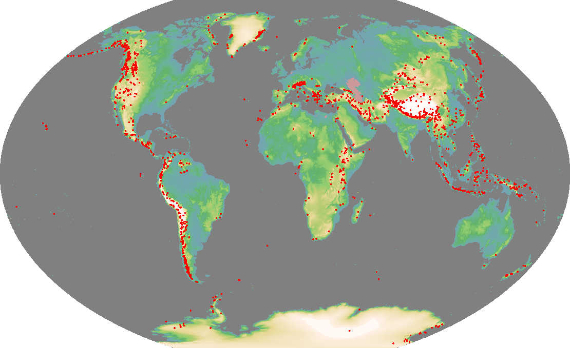 Map of ultra prominences